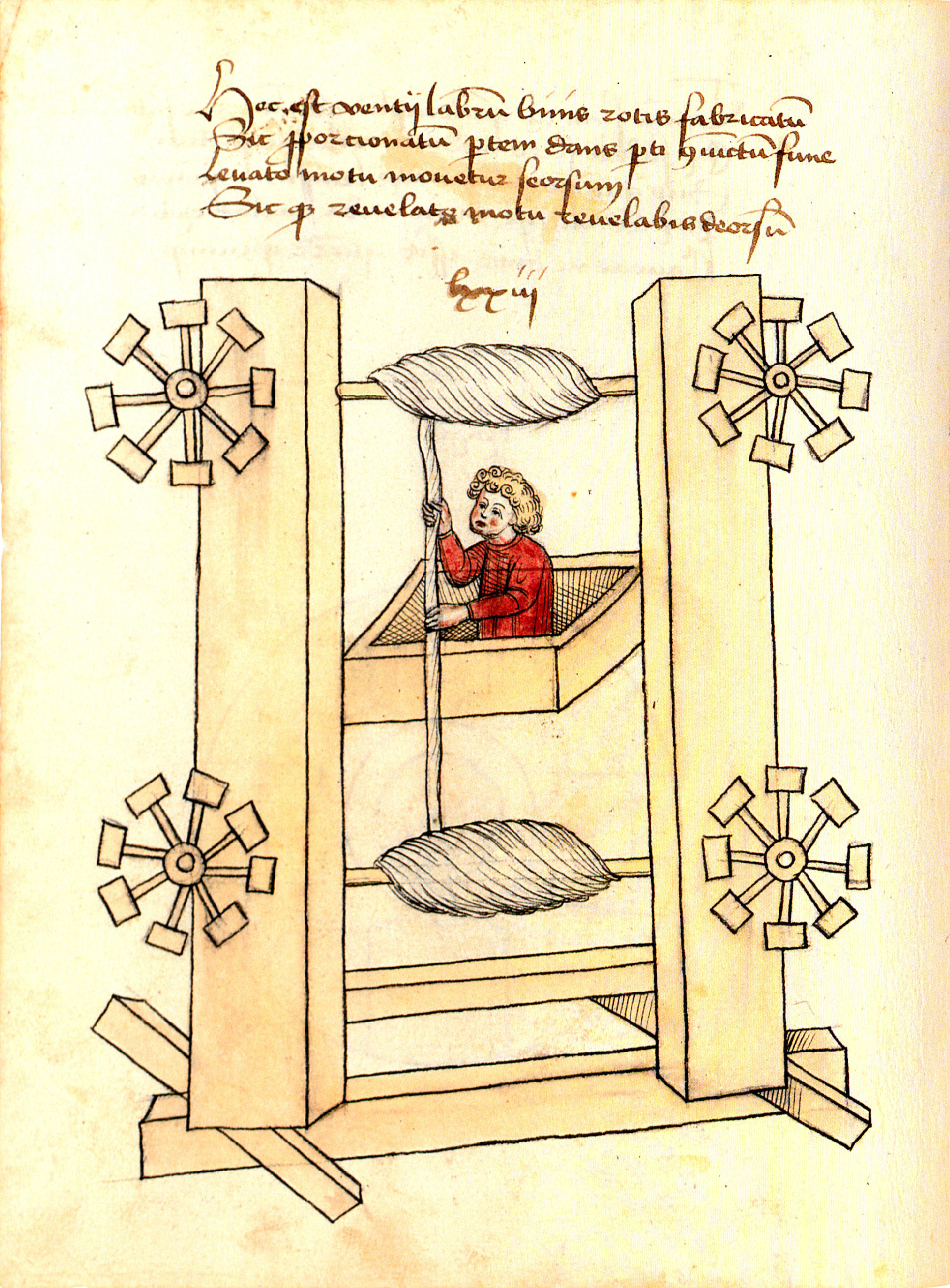 Elevator